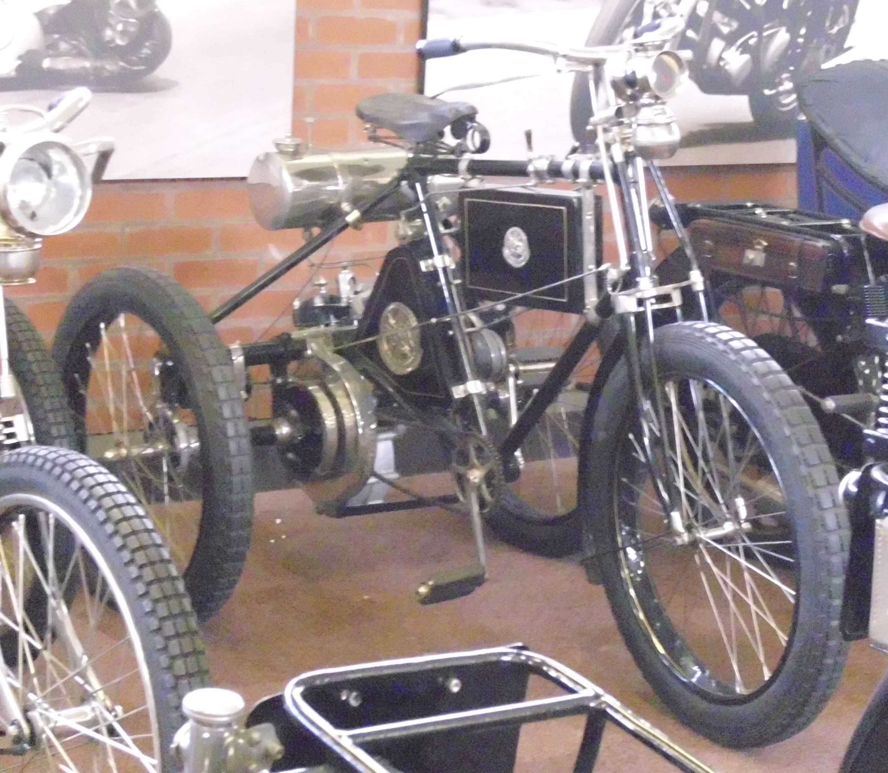 Dennis Tricycle 1898